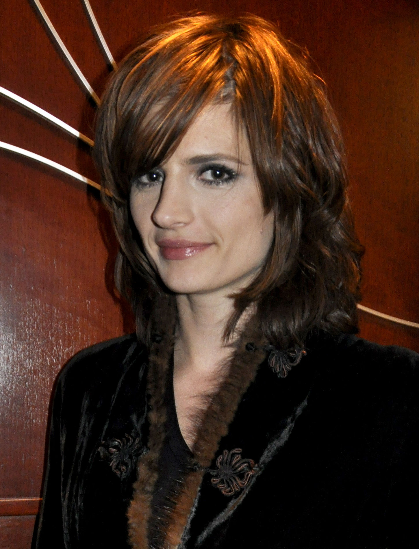 Actress Stana Katic at an Olympic party